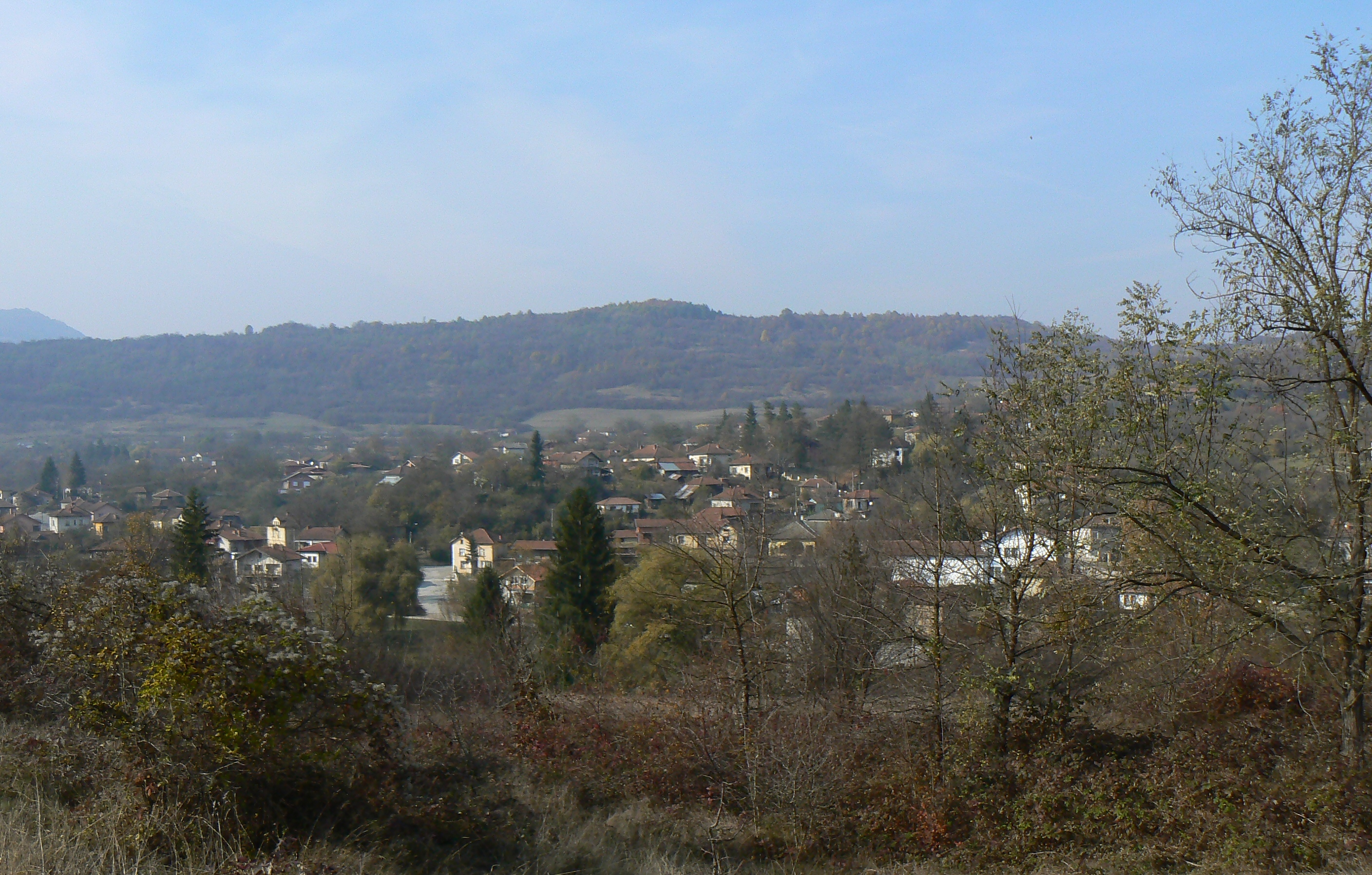 Panorama view to the Bulgarian village Bozhenitsa.